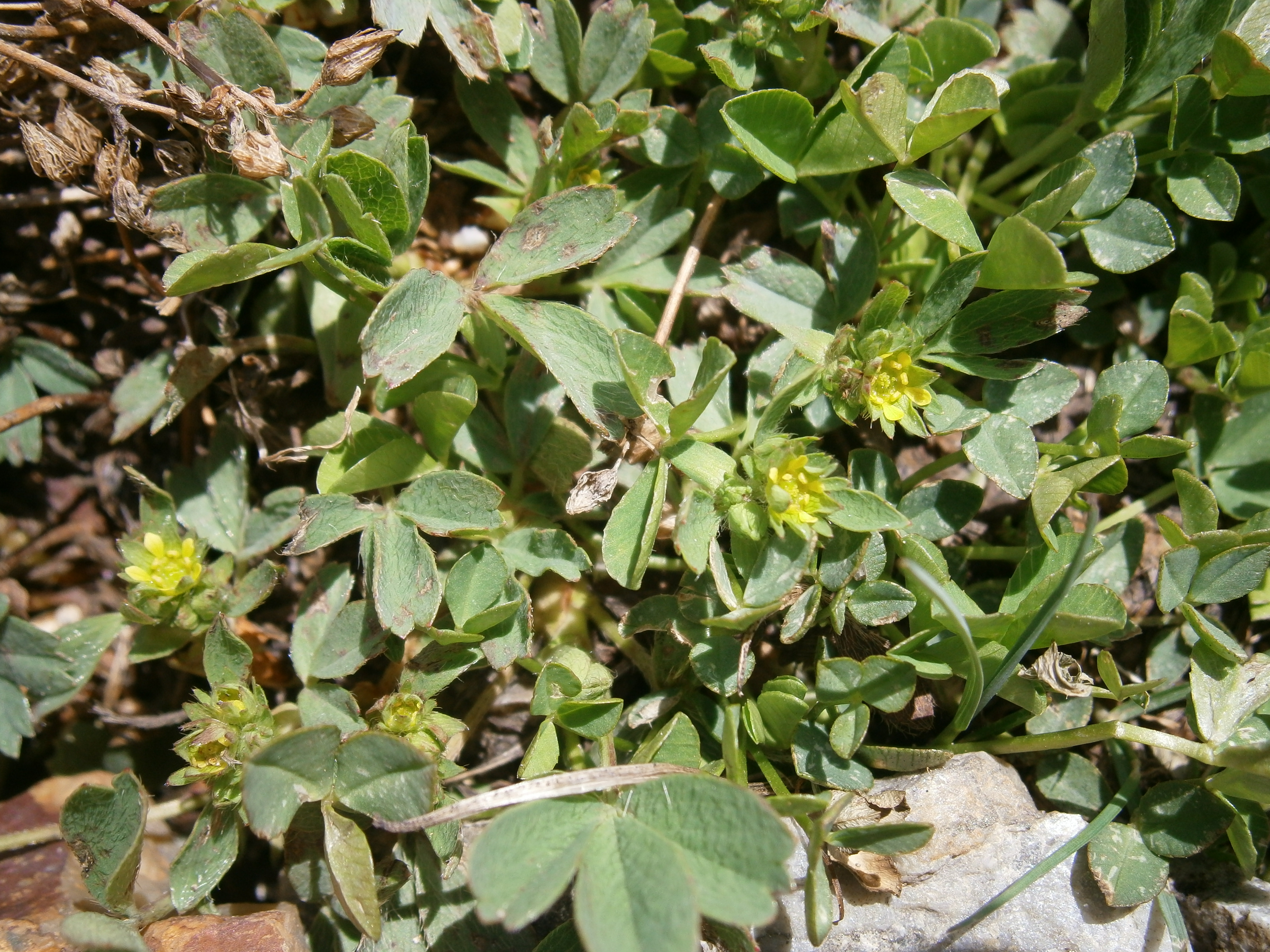 Sibbaldia procumbens